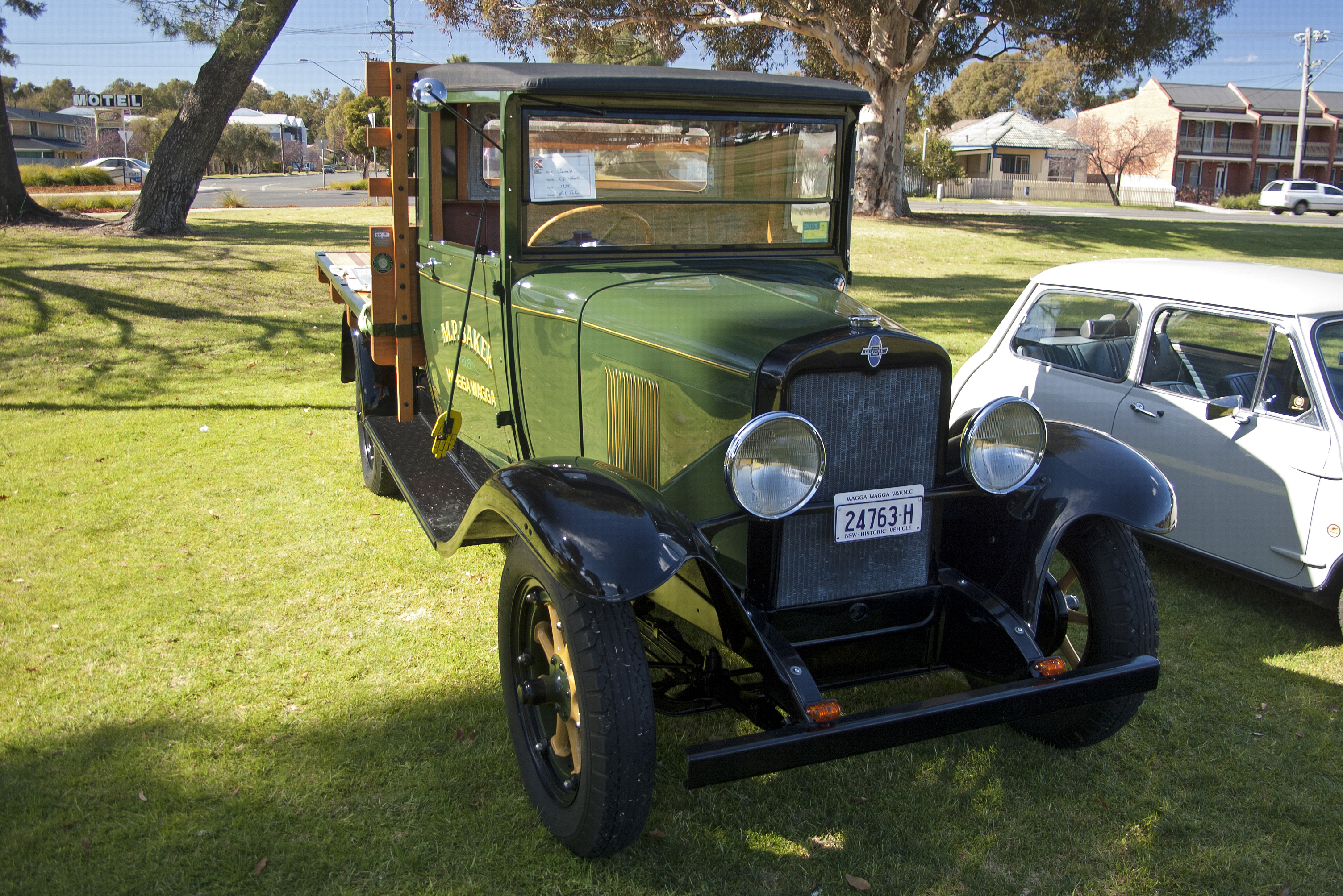 A restored 1929 Chevrolet LQ Series flat bed truck, photographed in Wagga Wagga, New South Wales, Australia.